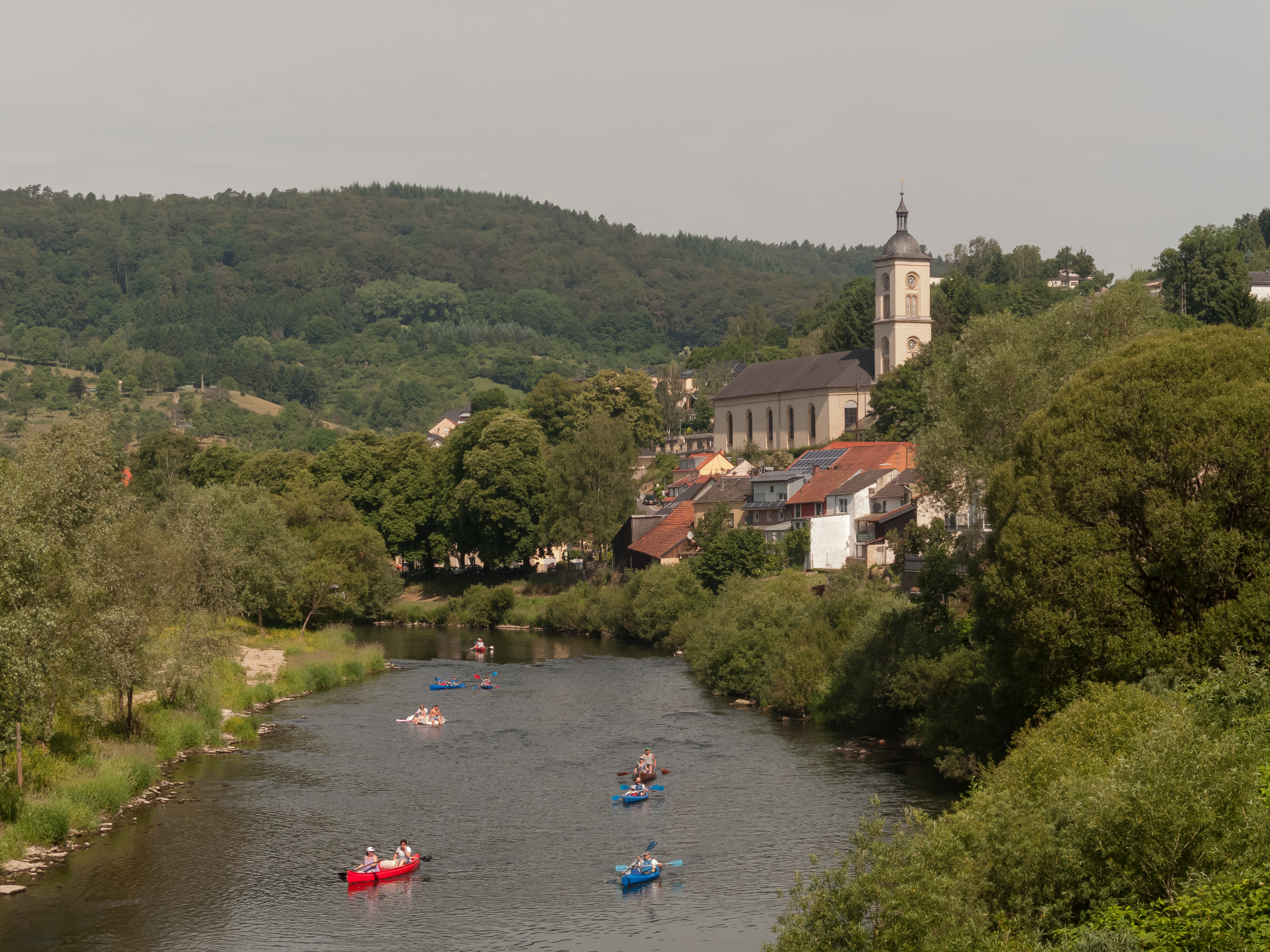 Bollendorf, river: die Sauer with church (die katholische Pfarrkirche Sankt Michael) in background